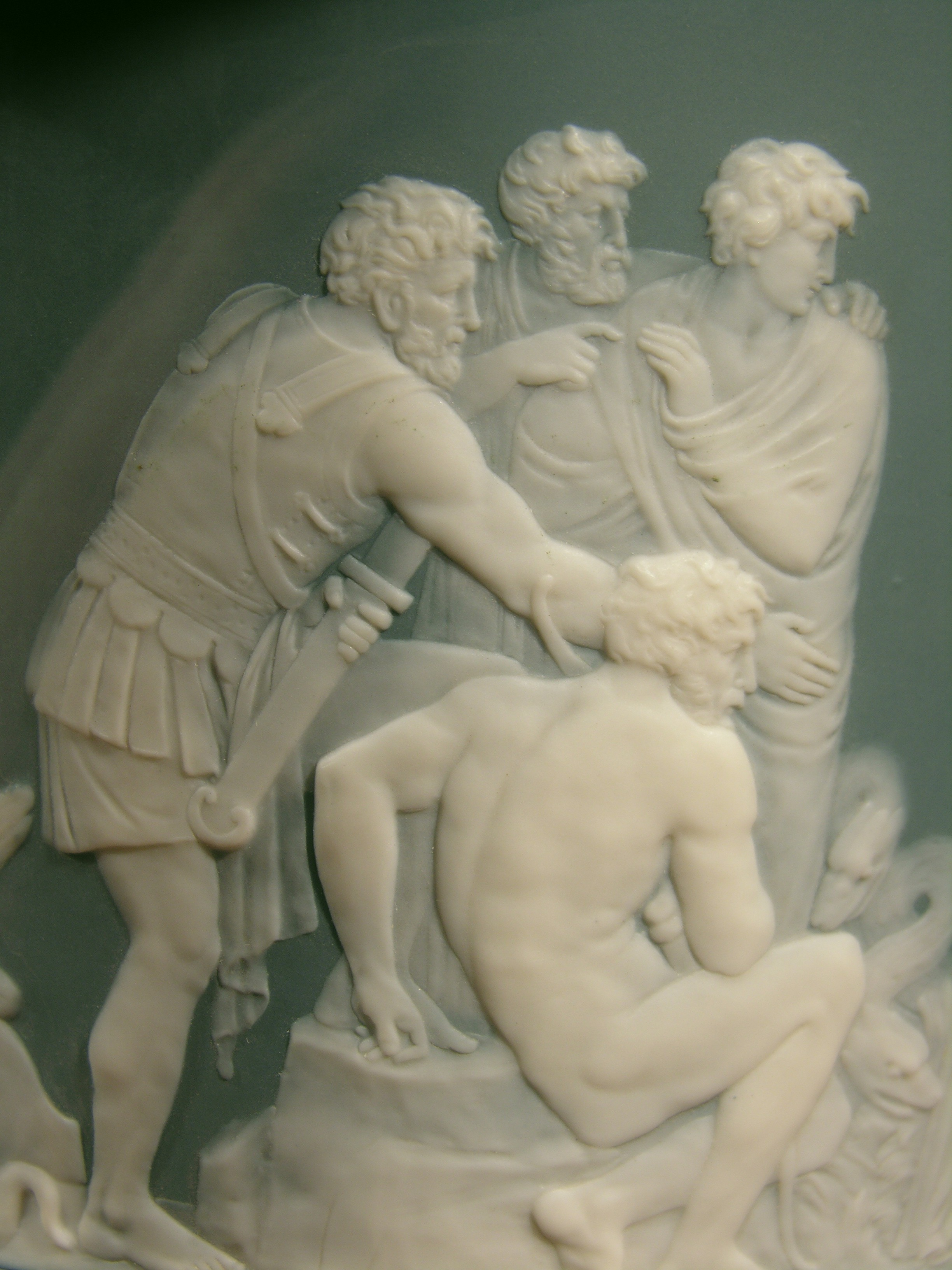 Section of a Phanolith cup. Design and realization by Jean-Baptiste Stahl, Mettlach, Saar, Germany.